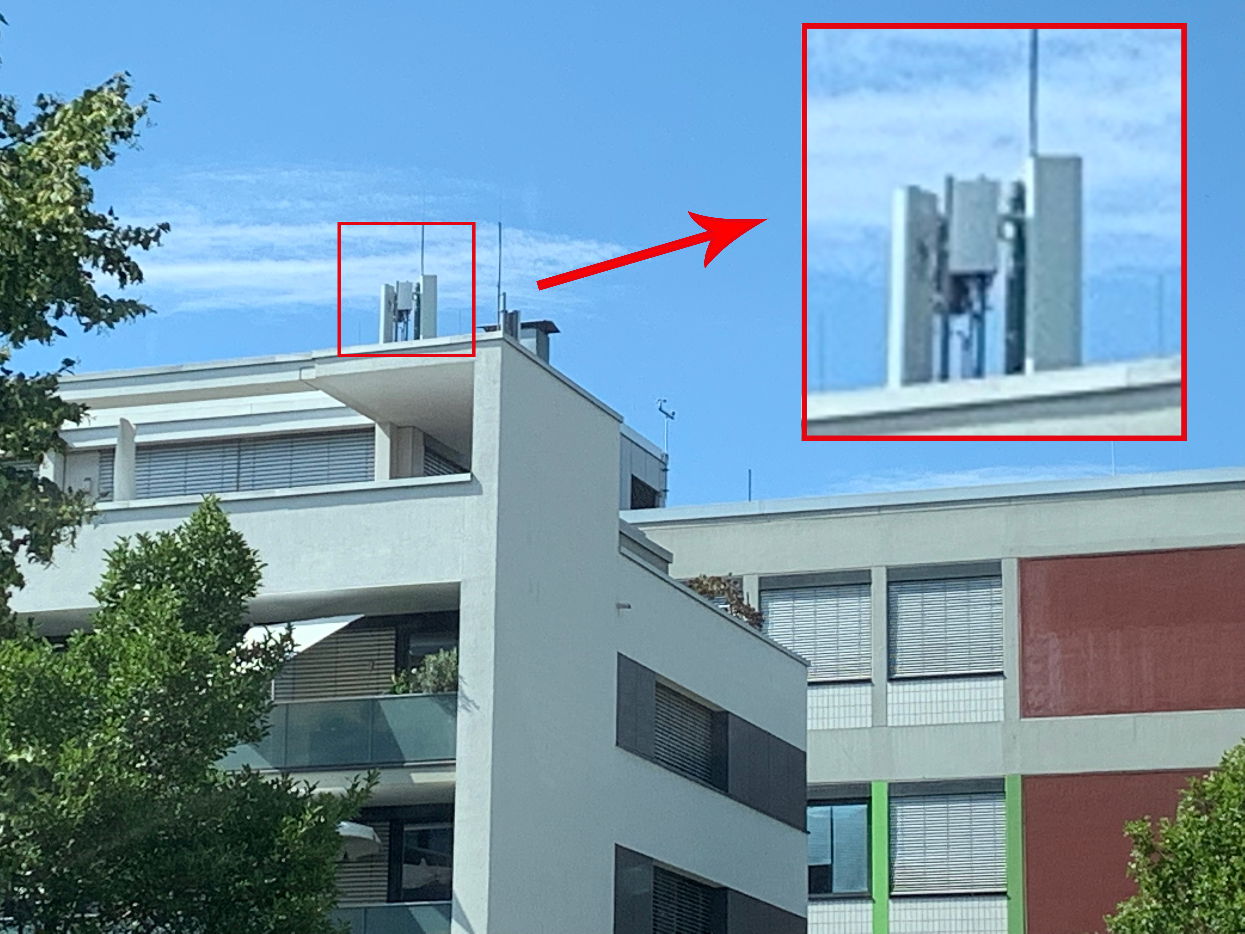 A 5G cell site from Deutsche Telekom in the Artillerie street in Darmstadt.